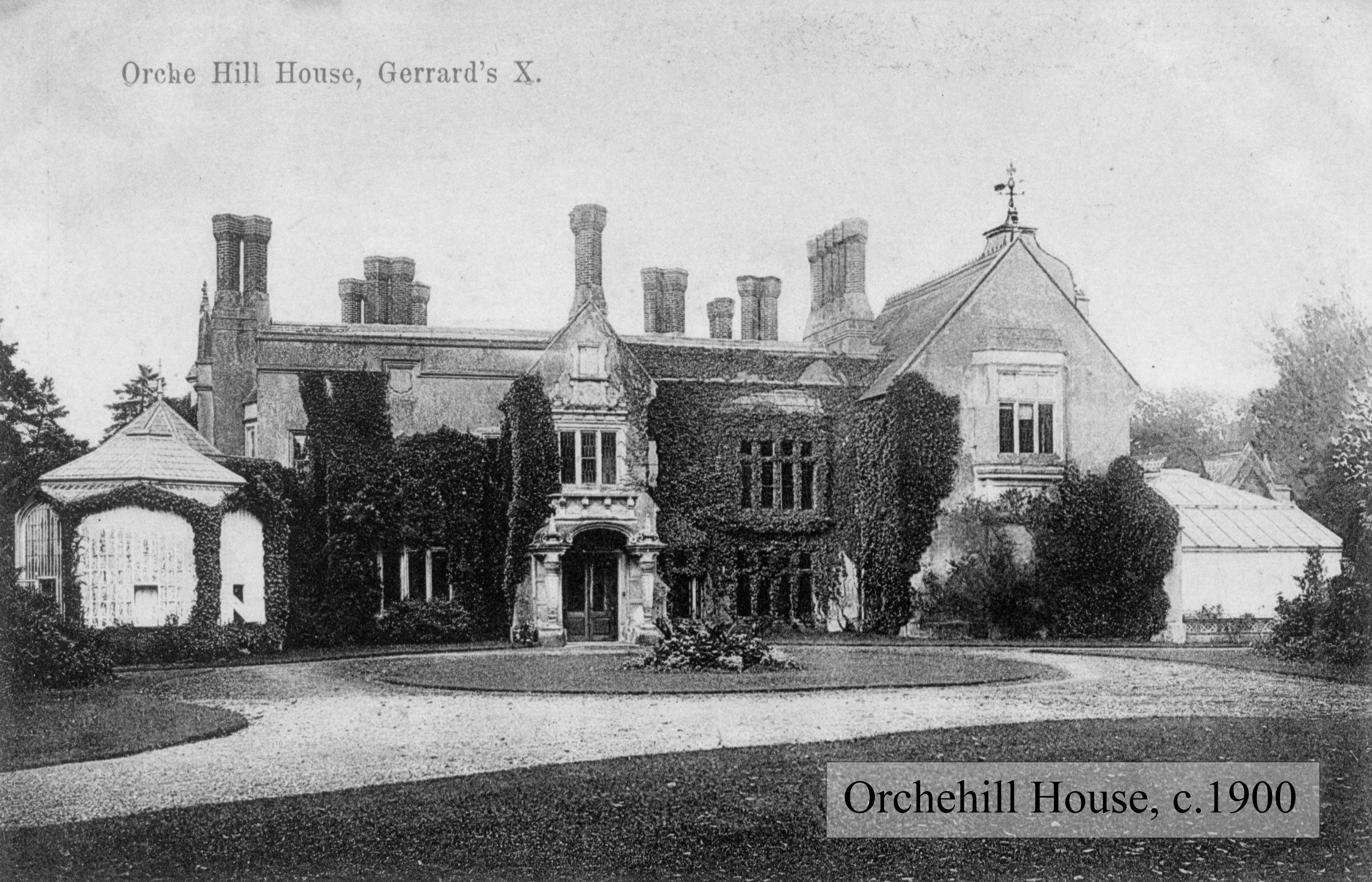 St Mary's School in Orchehill House, 1990